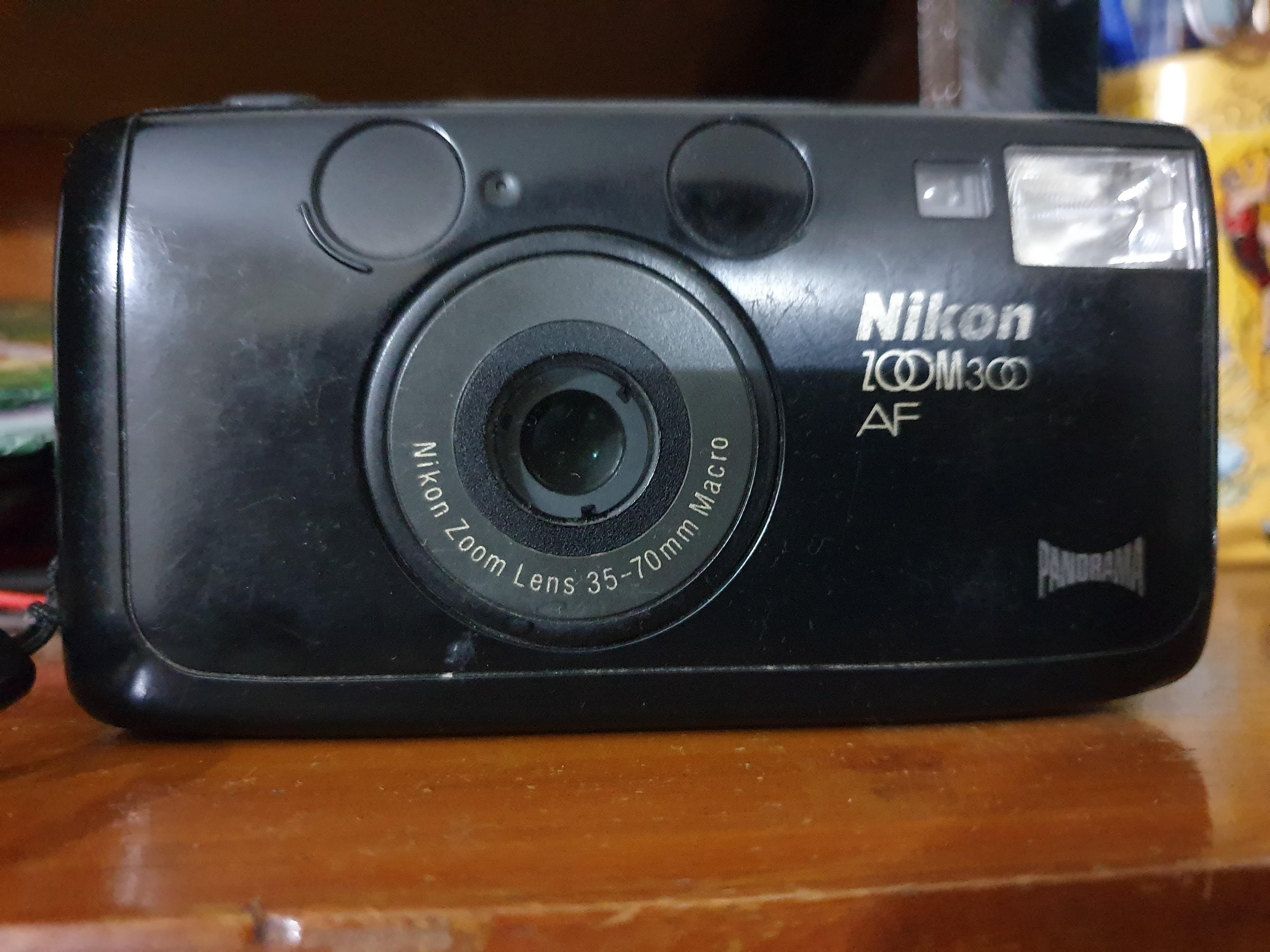 Nikon ZOOM 300 AF retro camera